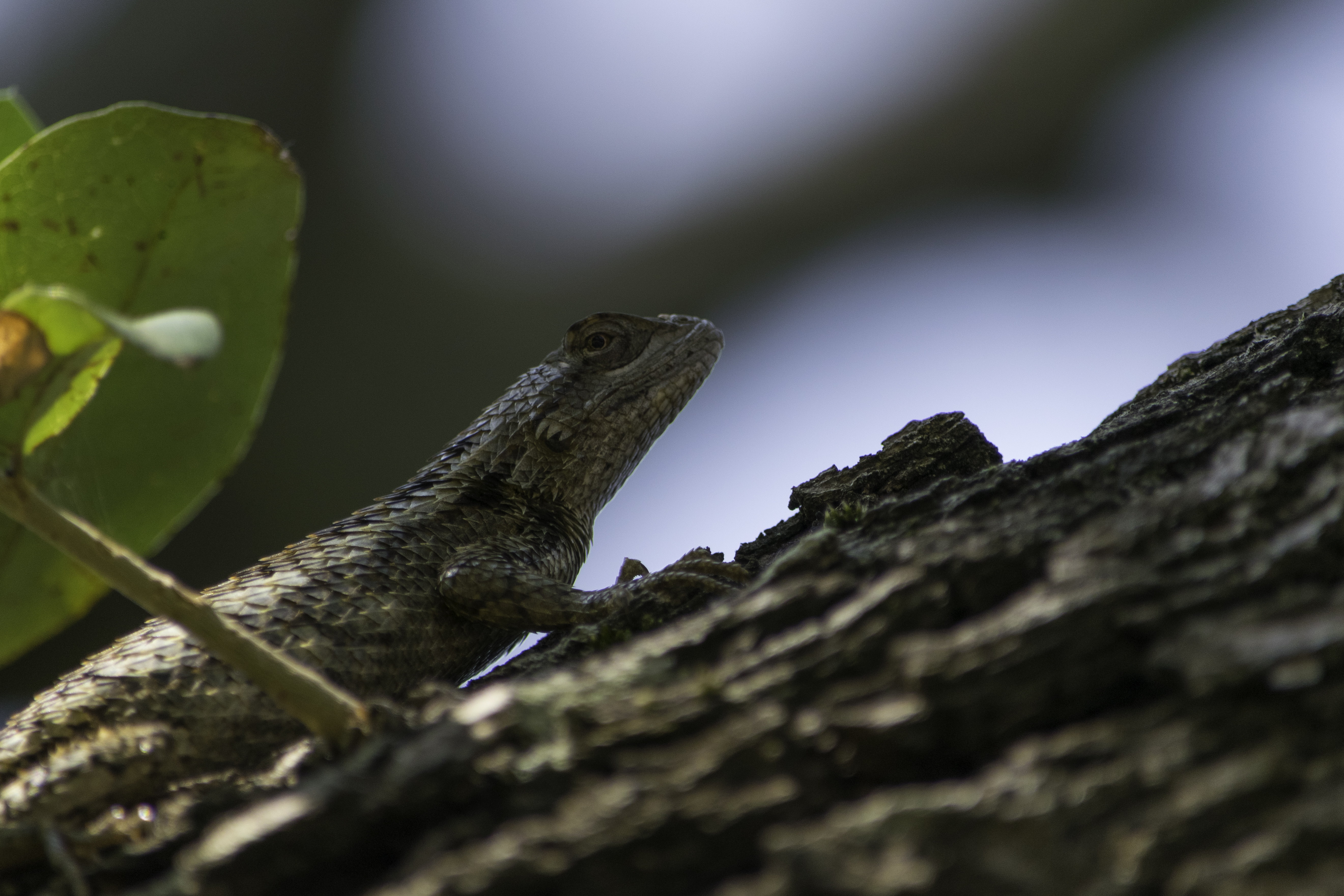 Sceloporus olivaceous keeping a watchful eye